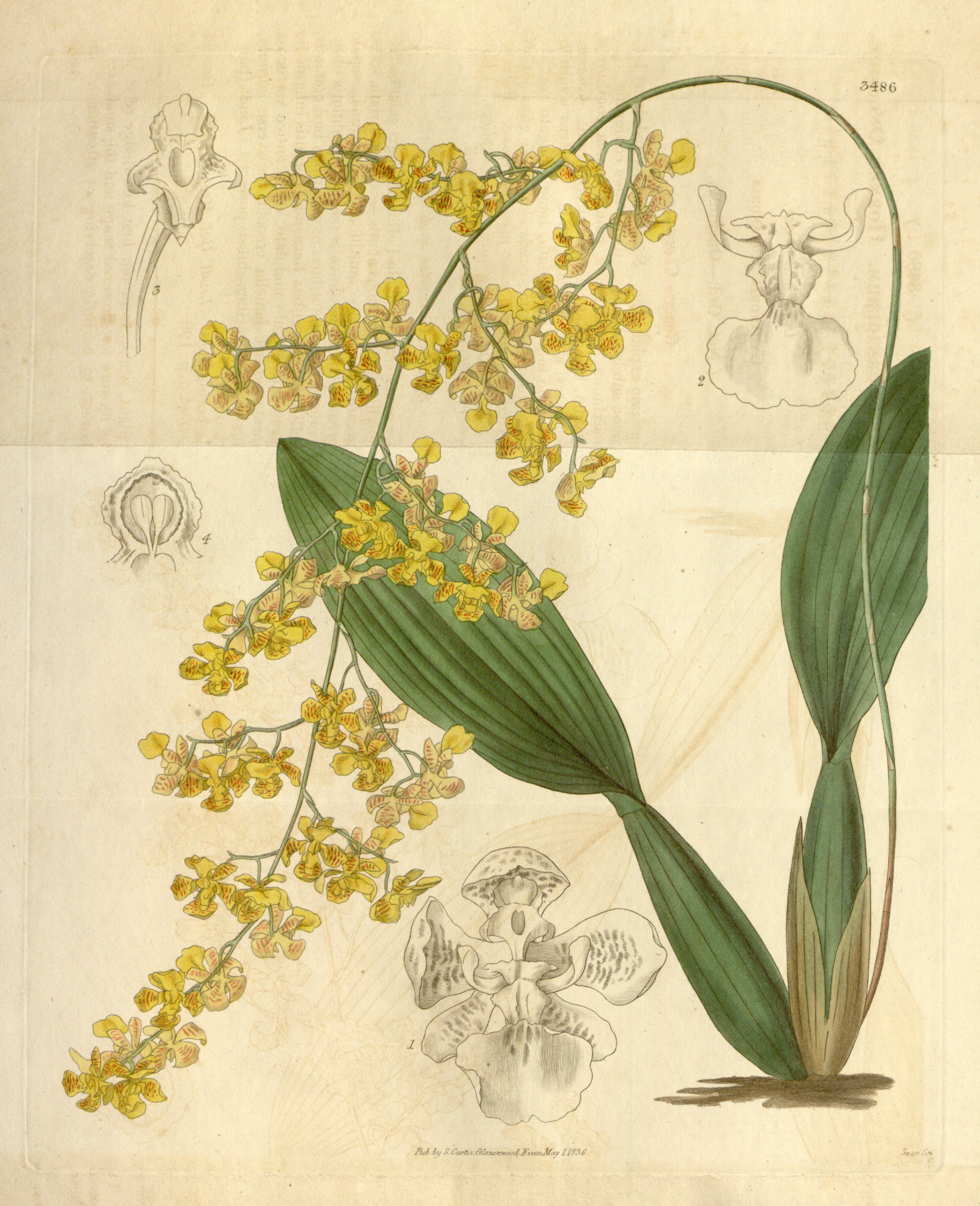 Illustration of Oncidium cornigerum